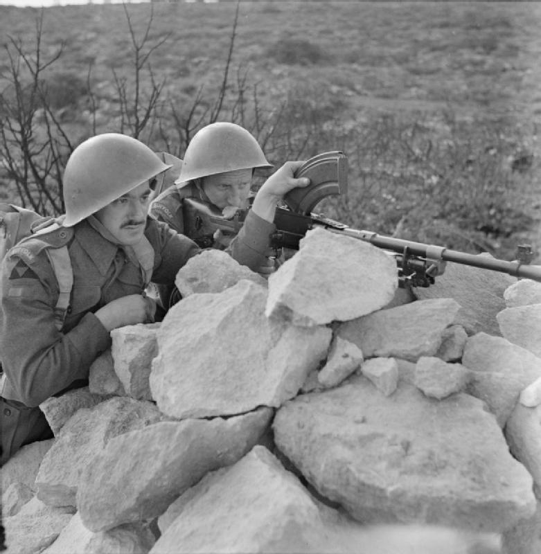 British Forces in the Middle East, 1945-1947 Two men of the 1st Battalion, The Suffolk Regiment manning a Bren Gun during a field exercise in Palestine.